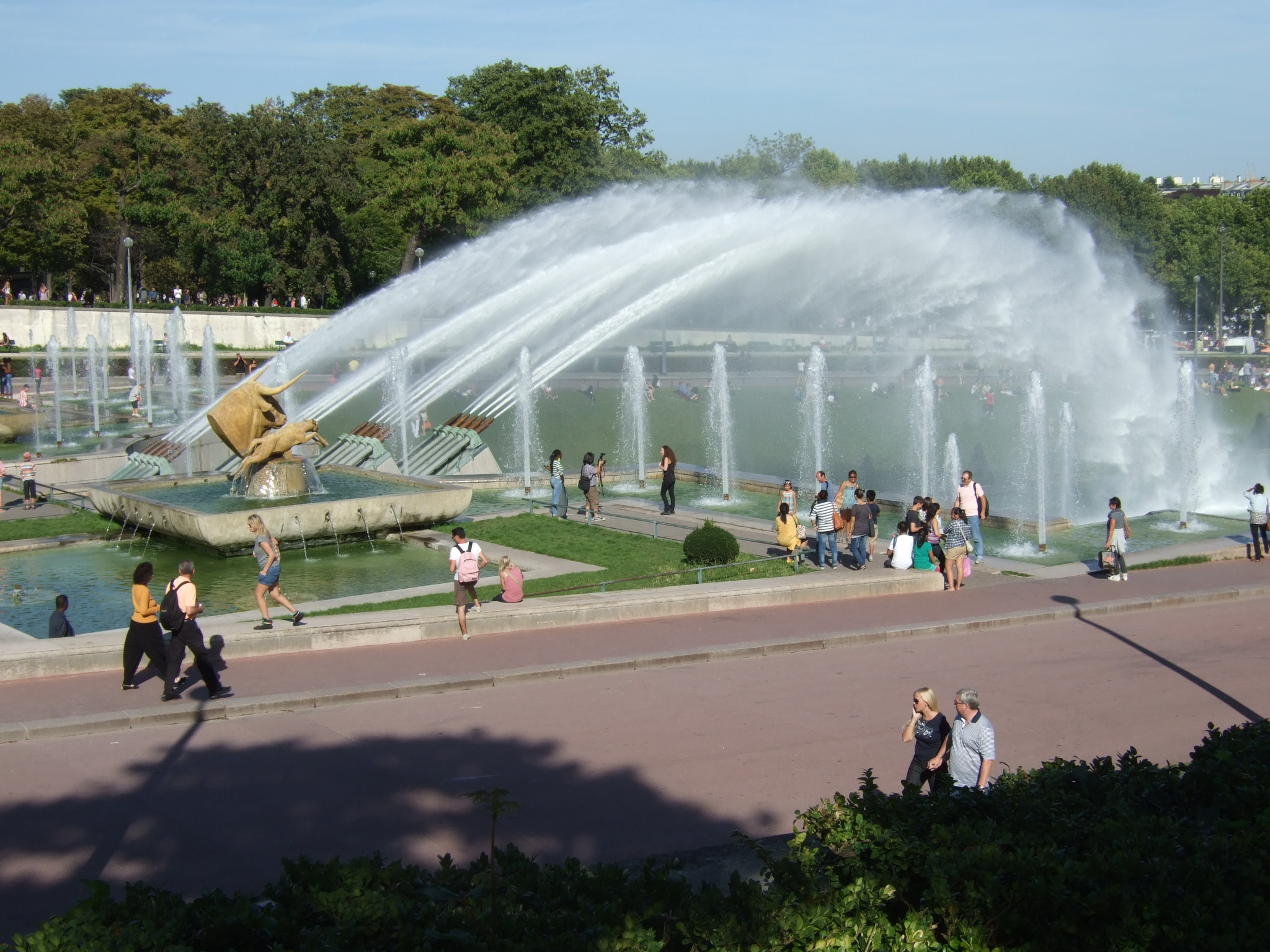 People at the Trocadéro